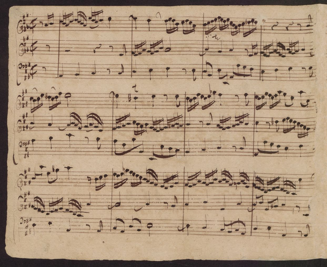 First page of manuscript of chorale prelude Allein gott in der Höh sei Ehr, BWV 664a, copied by Johann Tobias Krebs